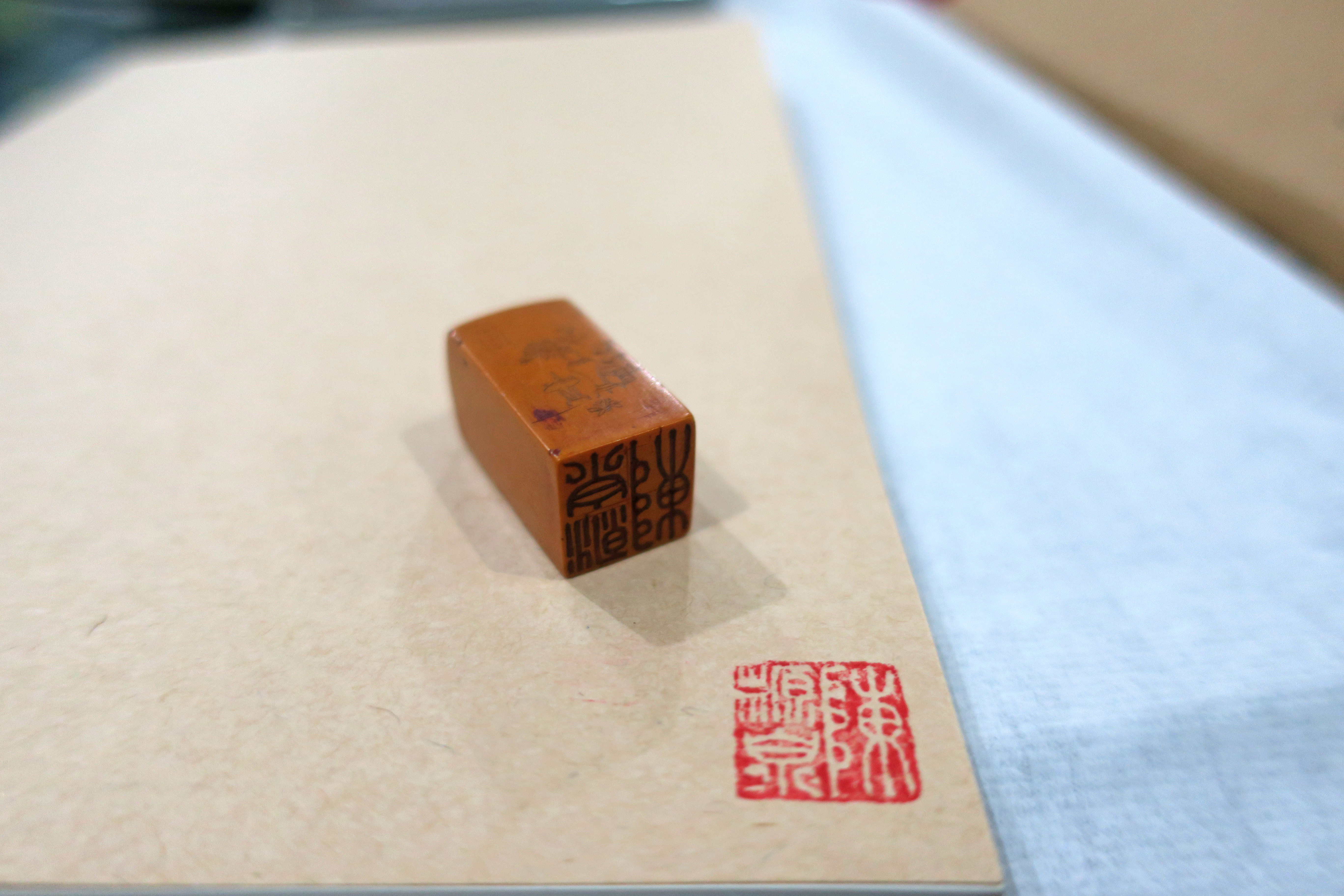 that merchant was my great grandfather. He bought an air plain for my great grand mother. LIKE WTF.